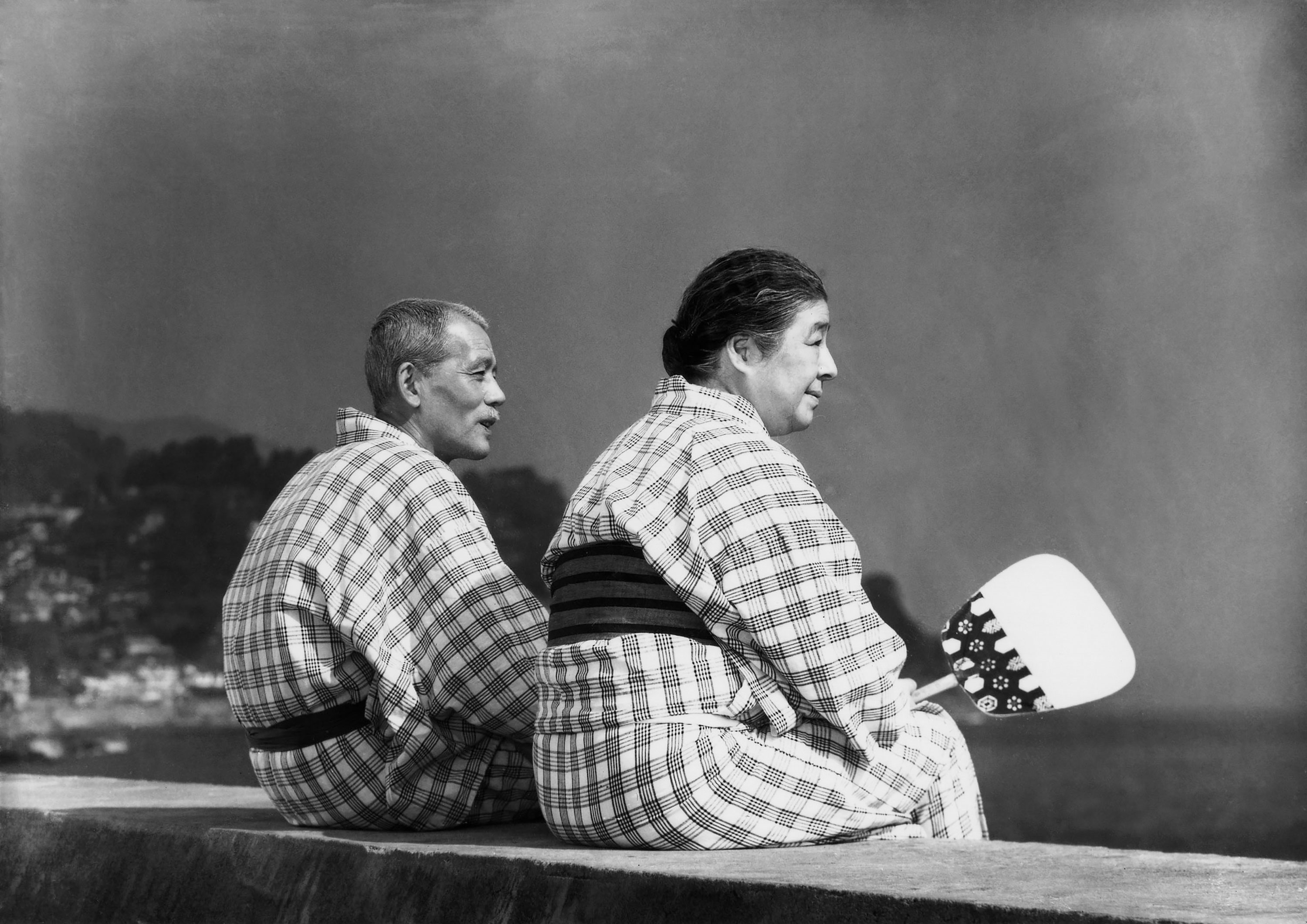 Chishū Ryū and Chieko Higashiyama in Tōkyō monogatari (東京物語) directed by Yasujirō Ozu - 1953